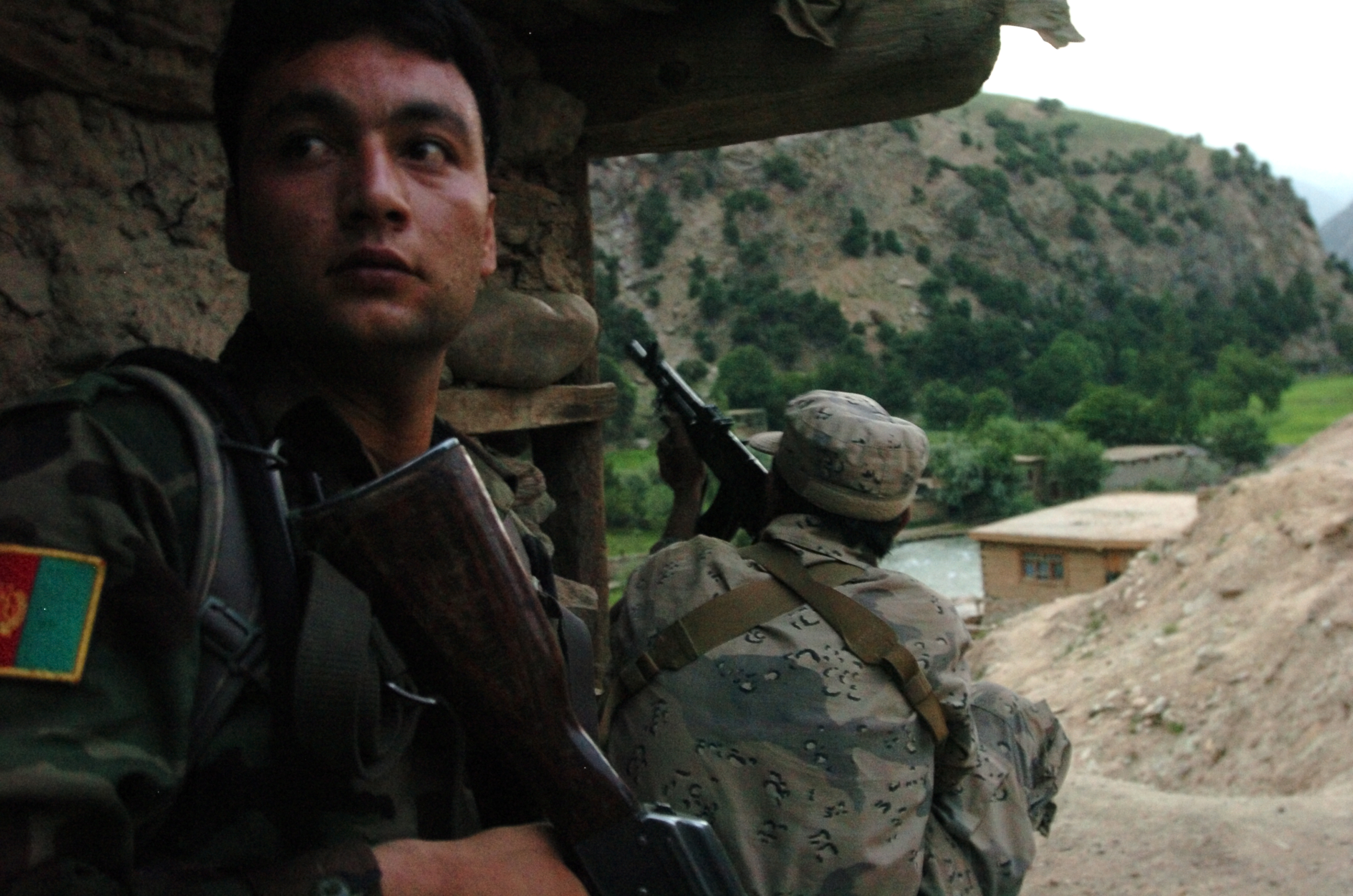 A member of the Afghan national army calls for help as a member of the Afghan border police fires at anti-Afghanistan forces in the mountains surrounding Barge Matal in Afghanistan's eastern Nuristan province, during Operation Mountain Fire, July 12. Afghan national security forces and International Security Assistance Force's fought side-by- side during the gun battle, which started in late afternoon and lasted until coalition and ANSF forces forced the insurgents to flee in the early evening. Photo by U.S. Army Sgt. Matthew C. Moeller, 5th Mobile Public Affairs Detachment See more at